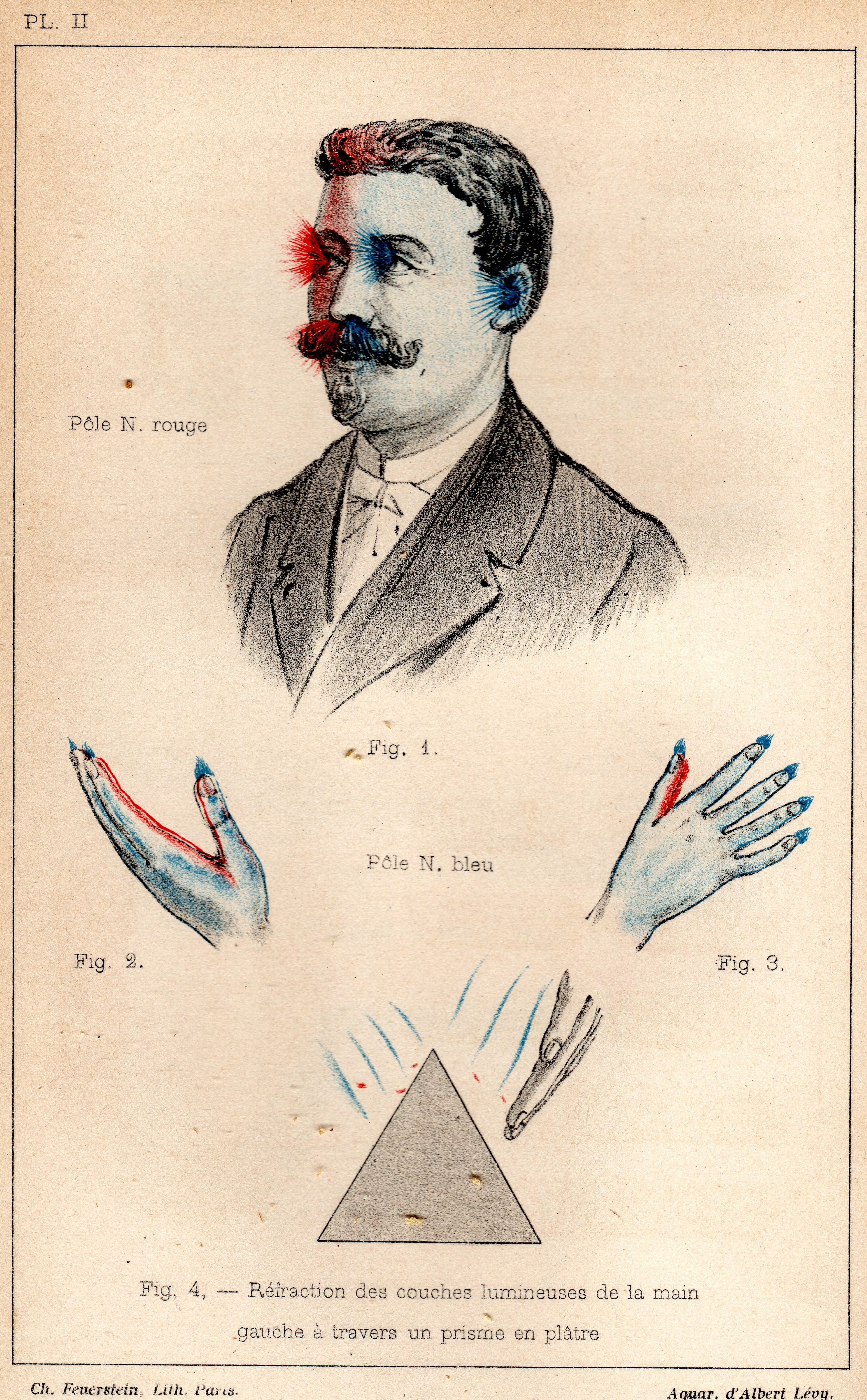 Color plate from source.